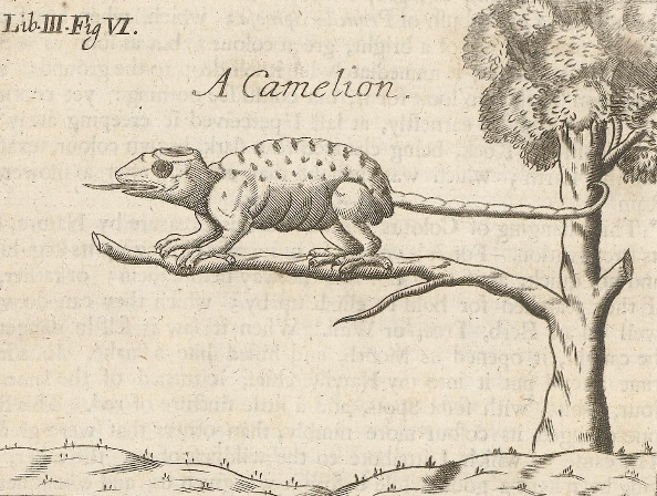 George Wheler, Chameleon